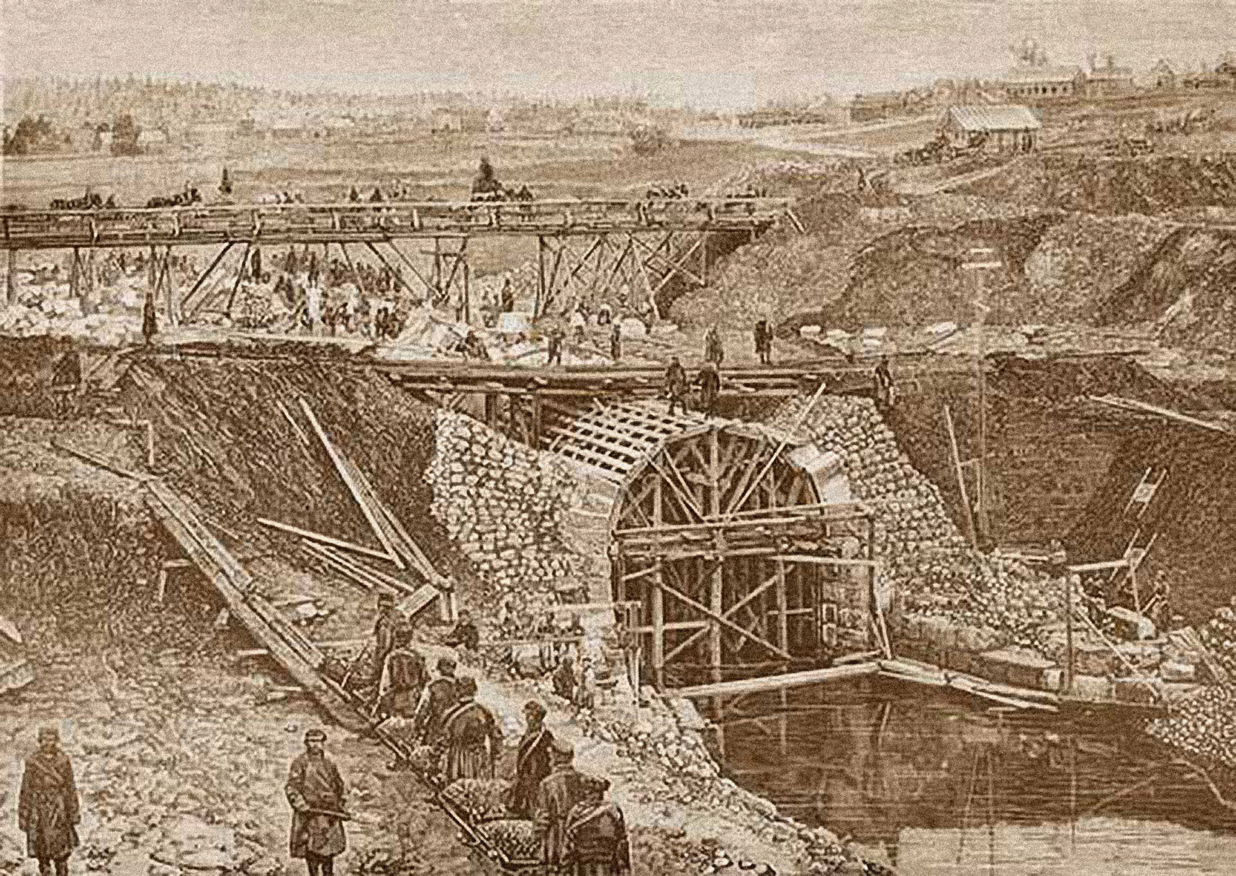 River Verebje. Construction tube under Moscow-Saint Petersburg Railway.